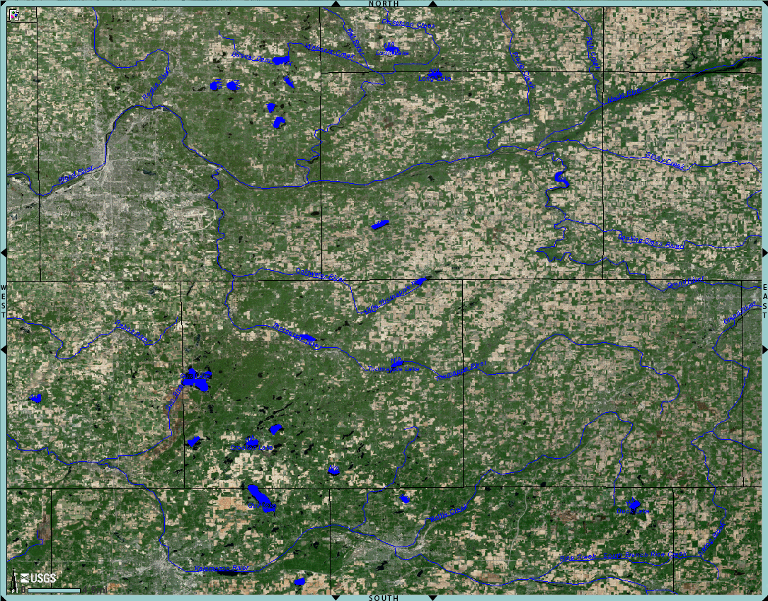 Satellite image of Thornapple River and surroundings from USGS site